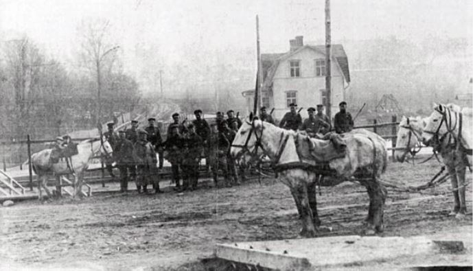 1918 Finnish Civil War: Soldiers of the German Baltic Sea Division at the Leppävaara Station before the Battle of Helsinki.